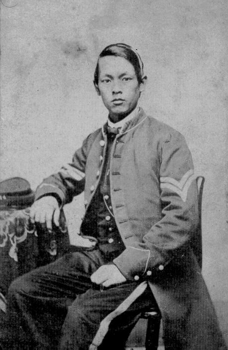 Joseph Pierce, a Chinese American soldier who served in North during American Civil War.